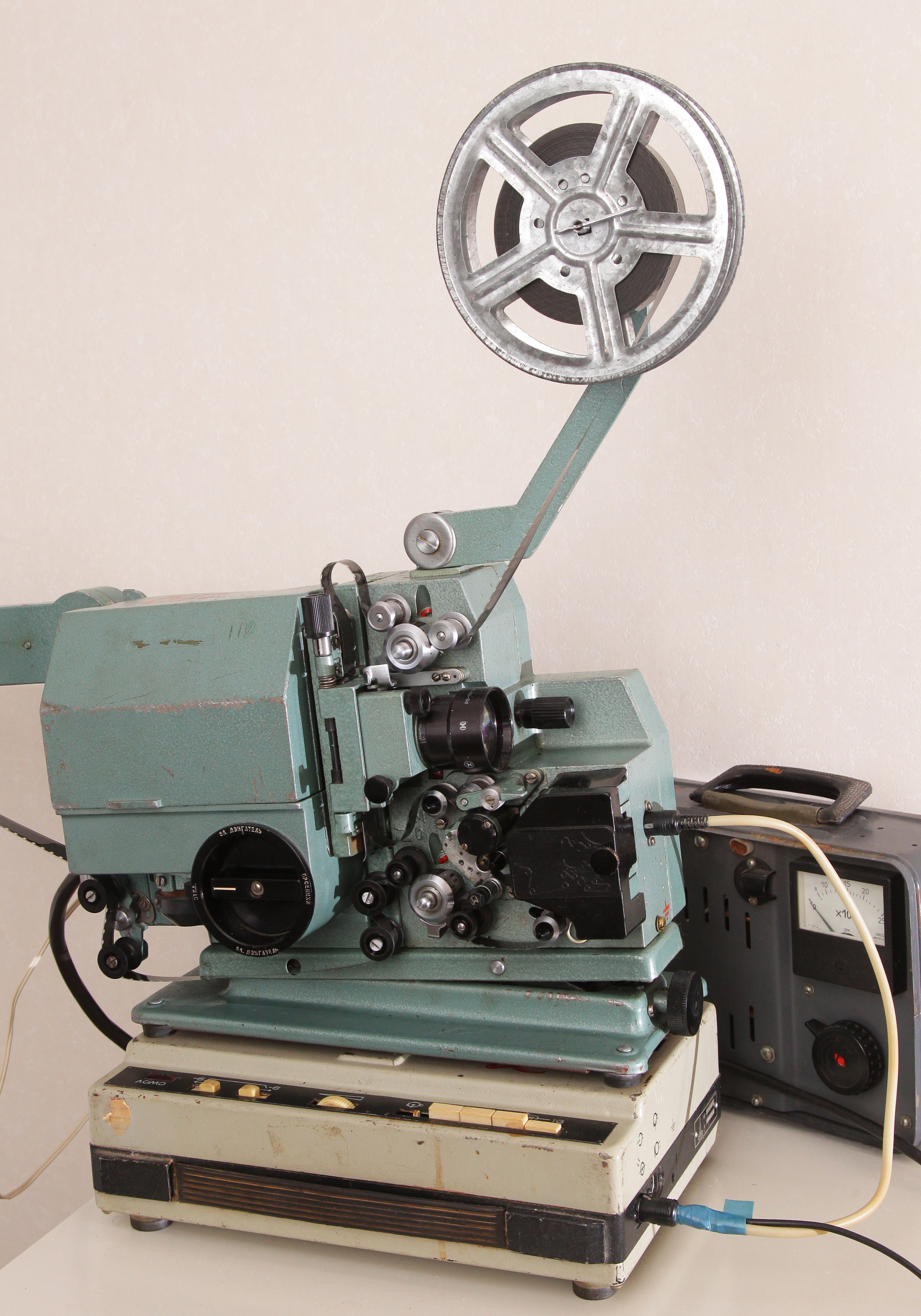 Soviet 16-mm movie projector 'Ukraina-5' with sound amplifier 6U-34 for optical and magnetic soundtrack, and power supply.